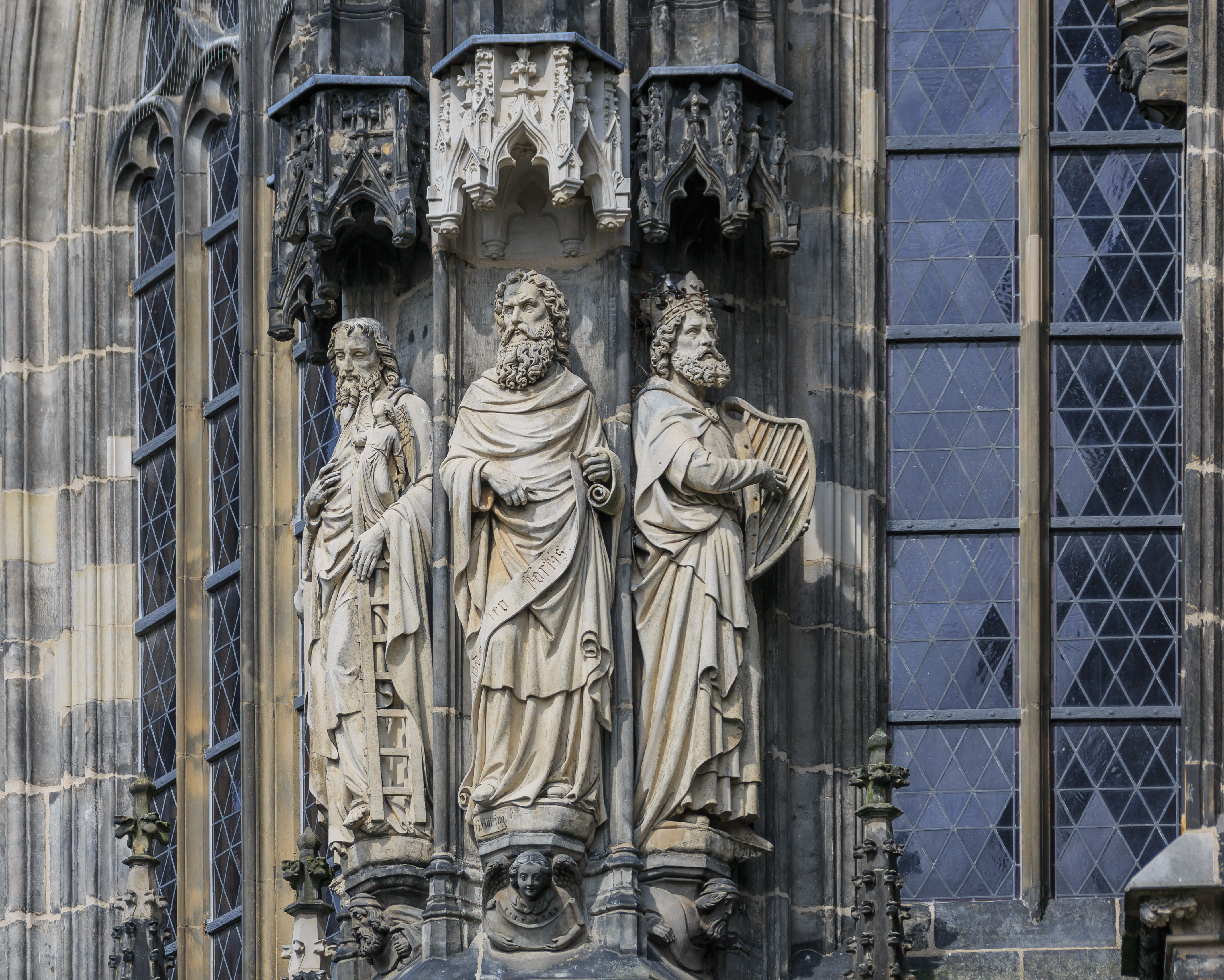 Aachen, Germany: Sculputure group at the south facade of the imperial cathedral